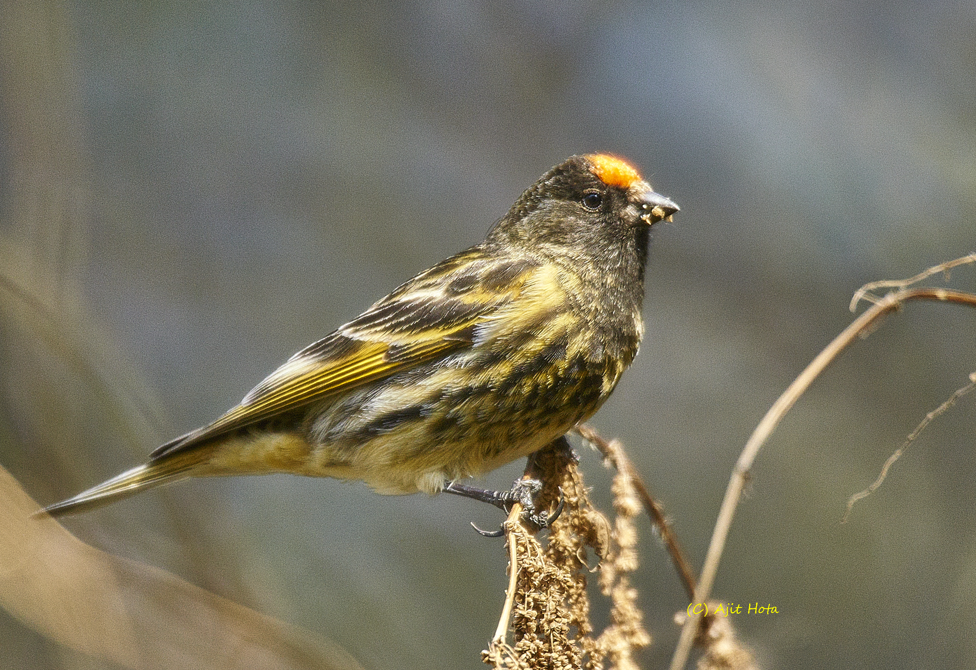 Fire-fronted serin at Deoria Tal